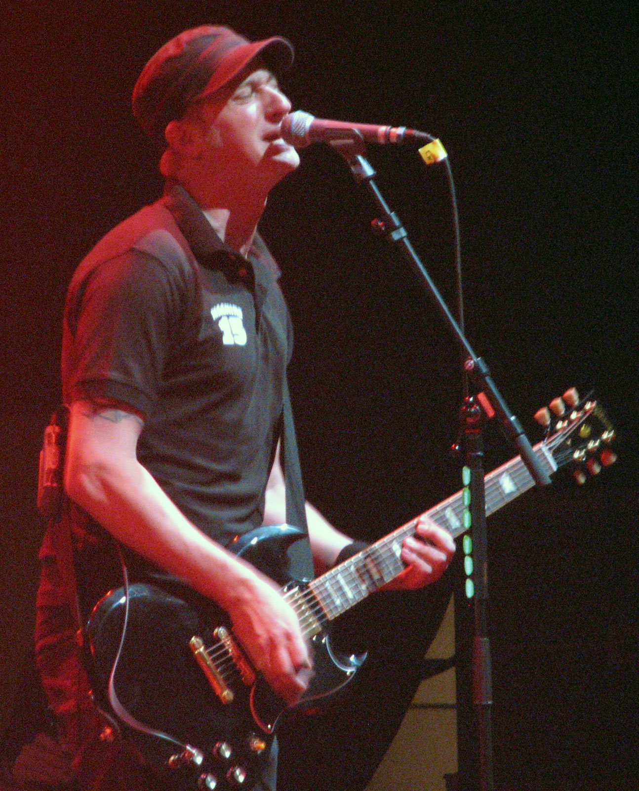 Erik Ohlsson of Millencolin (live at Conventum, Örebro, Sweden).